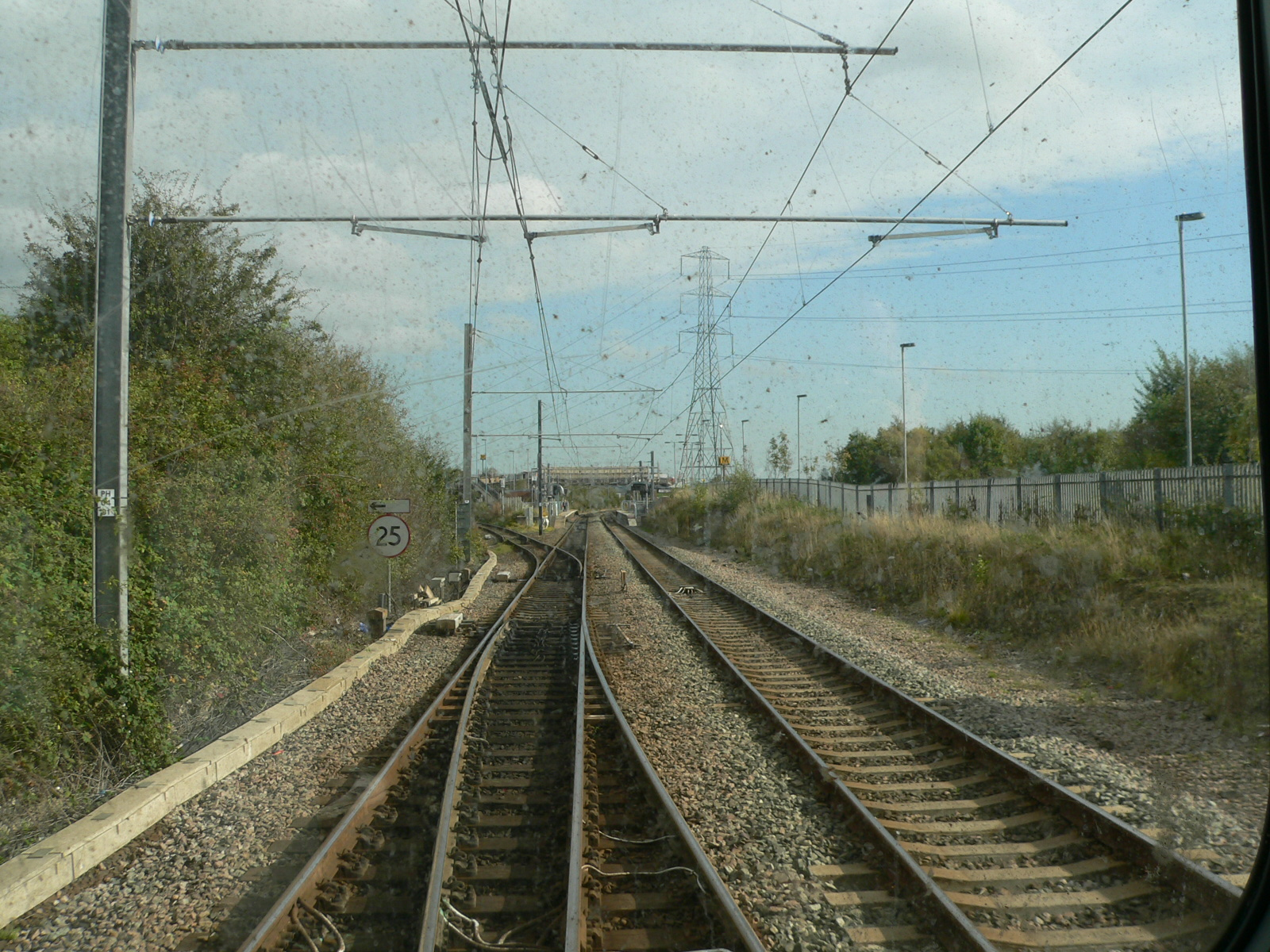 The view through the rather grubby front window of Tyne and Wear Metro train 4089 approaching Boldon West Junction on the section of track shared with national rail trains. This junction gives access for freight trains to Tyne Dock.